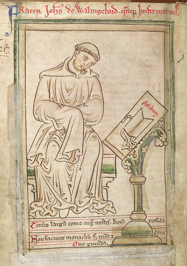 John of Wallingford seated reading at a lectern. Drawn and inscribed by Matthew Paris after John of Wallingford's term as infirmarer at St Alban's abbey